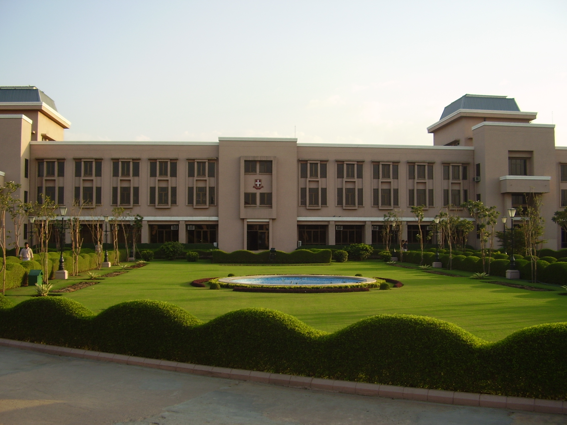 photo of this university clicked by me on my camera